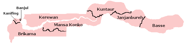 Map of Local Government Areas in The Gambia; created with the GIMP. Made by User:Acntx